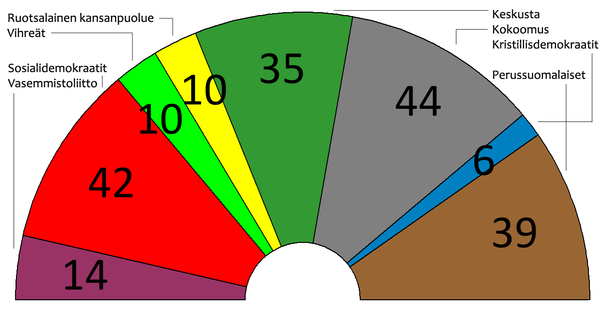 Seats in the Parliament of Finland, 2011 election Left Alliance (14) Social Democrats (42) Green League (10) Swedish People’s Party (10) Centre Party (35) National Coalition (44) Christian Democrats (6) True Finns (39)